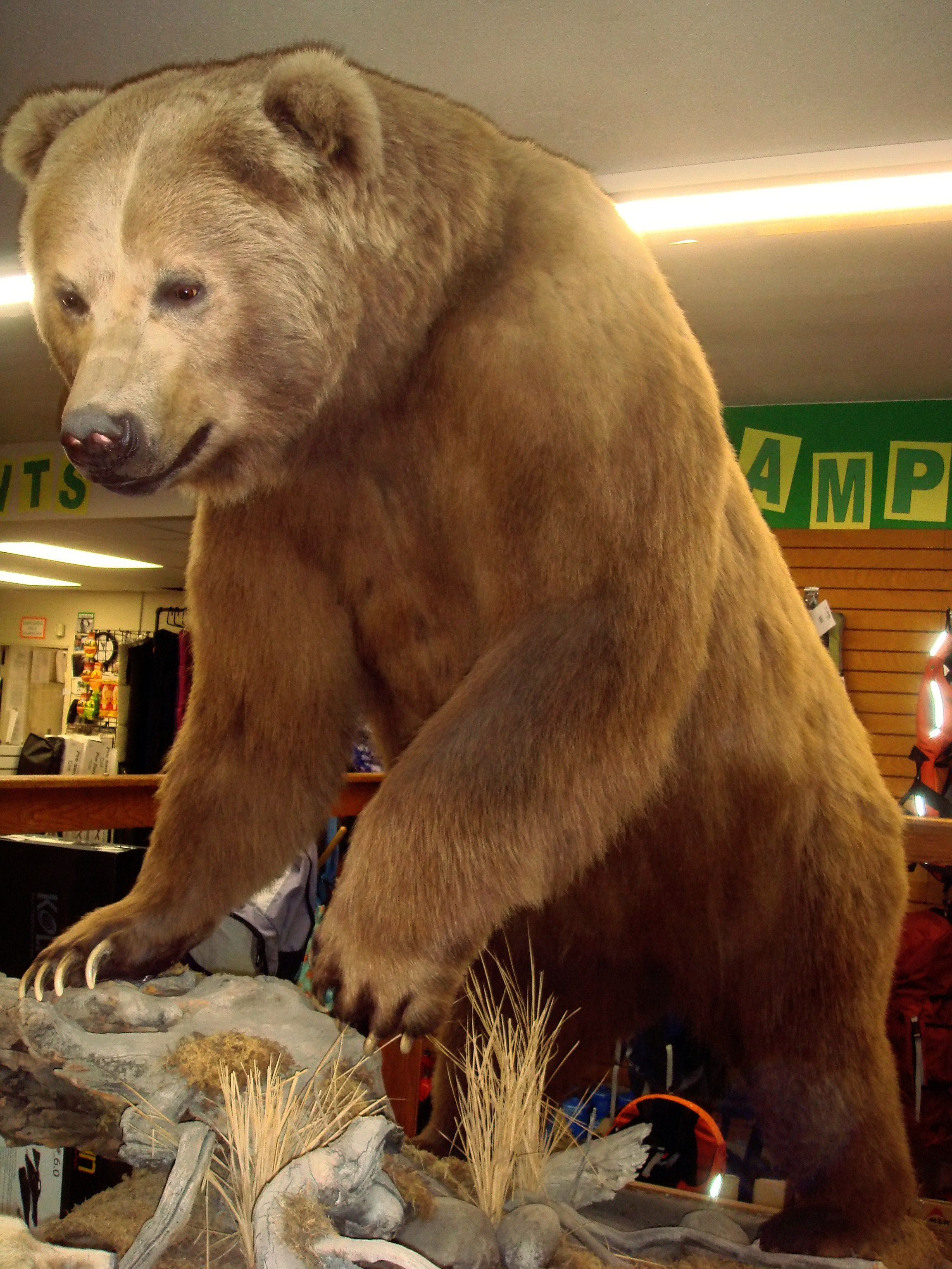 The Kodiak Bear specimen in Mack's Sport Shop in Kodiak, AK